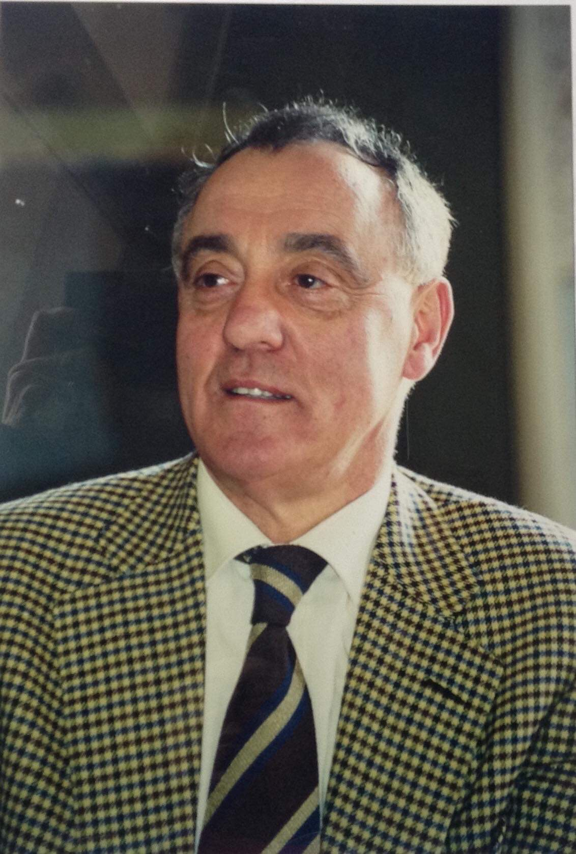 Marcello Silvestrini's portrait.